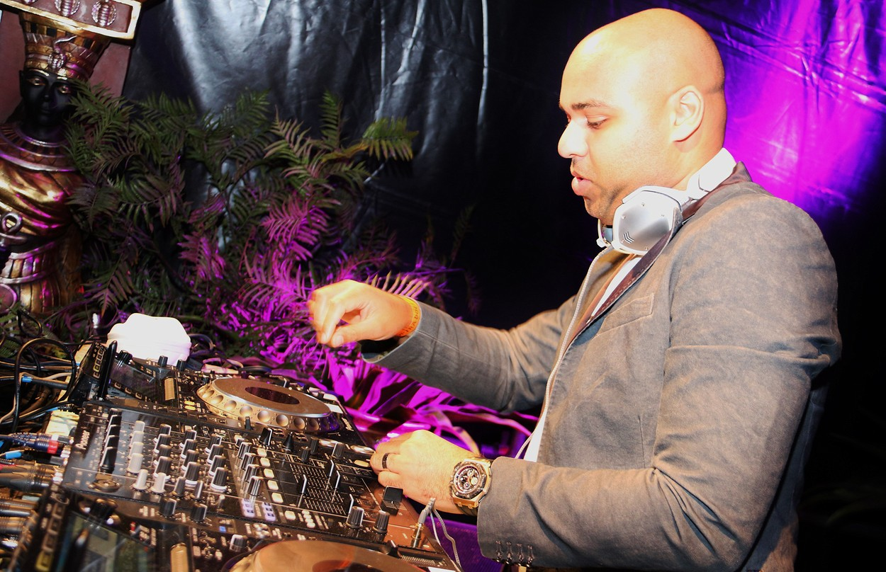 Sidney Samson at Essential Festival 2013